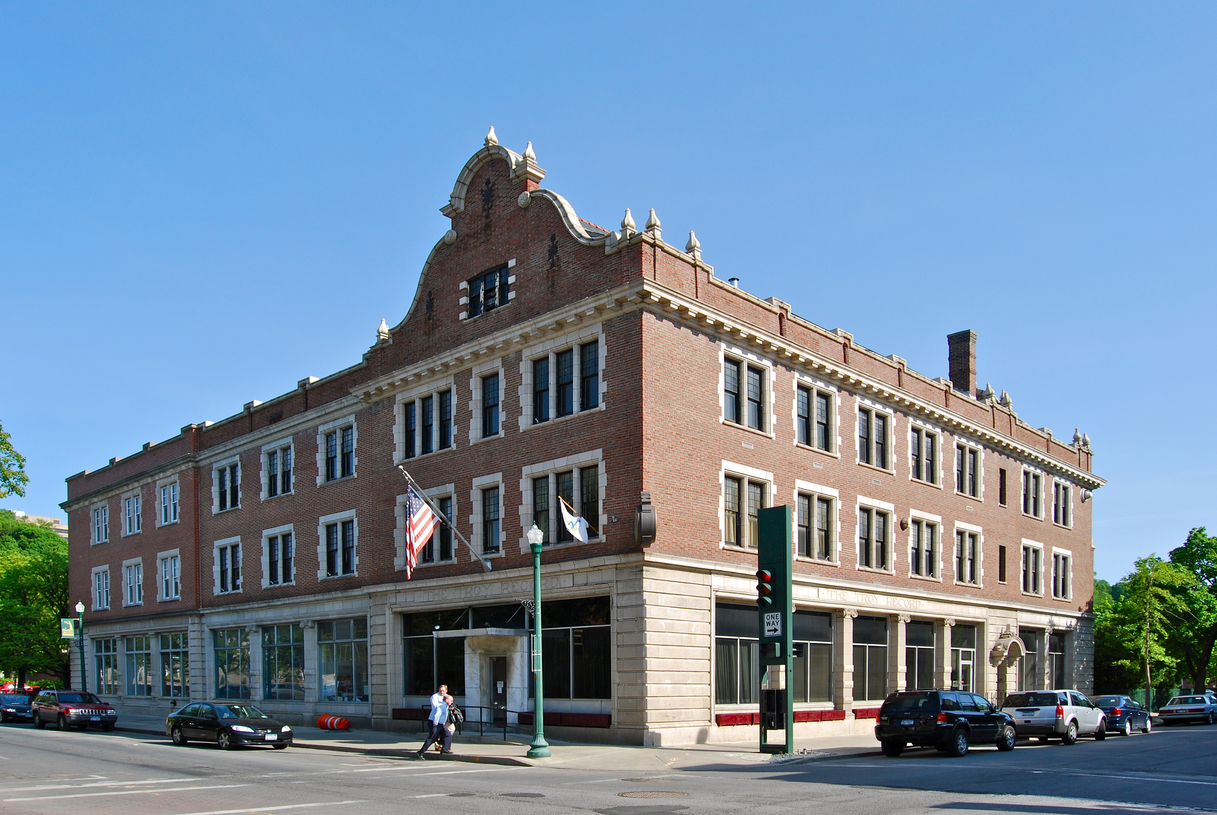 Troy Record building in the Central Troy Historic District in Troy, New York, United States